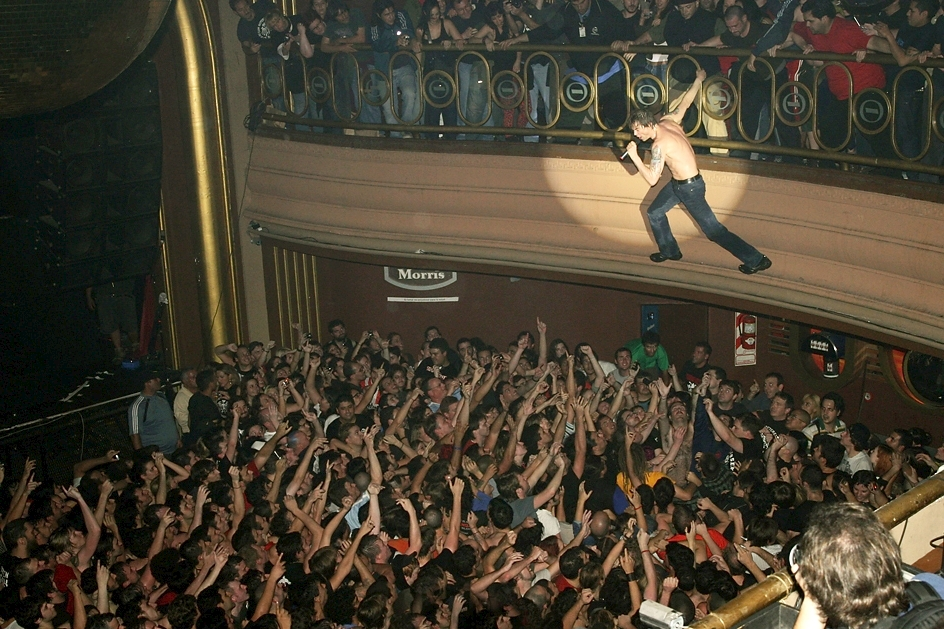 German punk band "Die Toten Hosen" performing live at Teatro Colegiales in Buenos Aires. The photo shows the singer Campino, moments before jumping into the crowd.